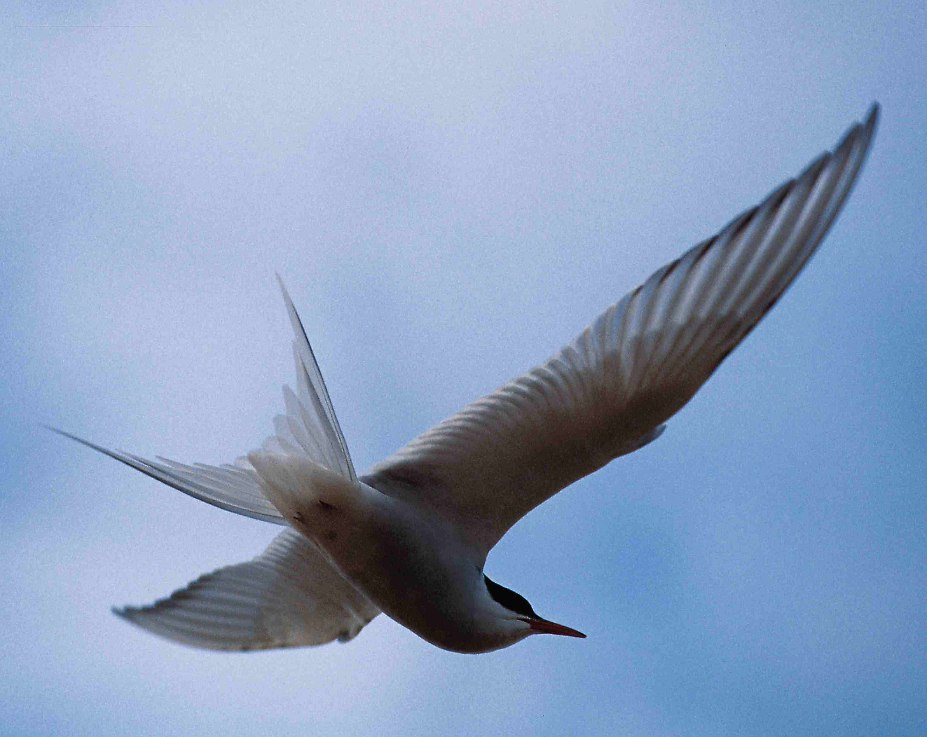 Arctic tern (Sterna paradisaea) in Quttinirpaaq National Park, Nunavut, Canada